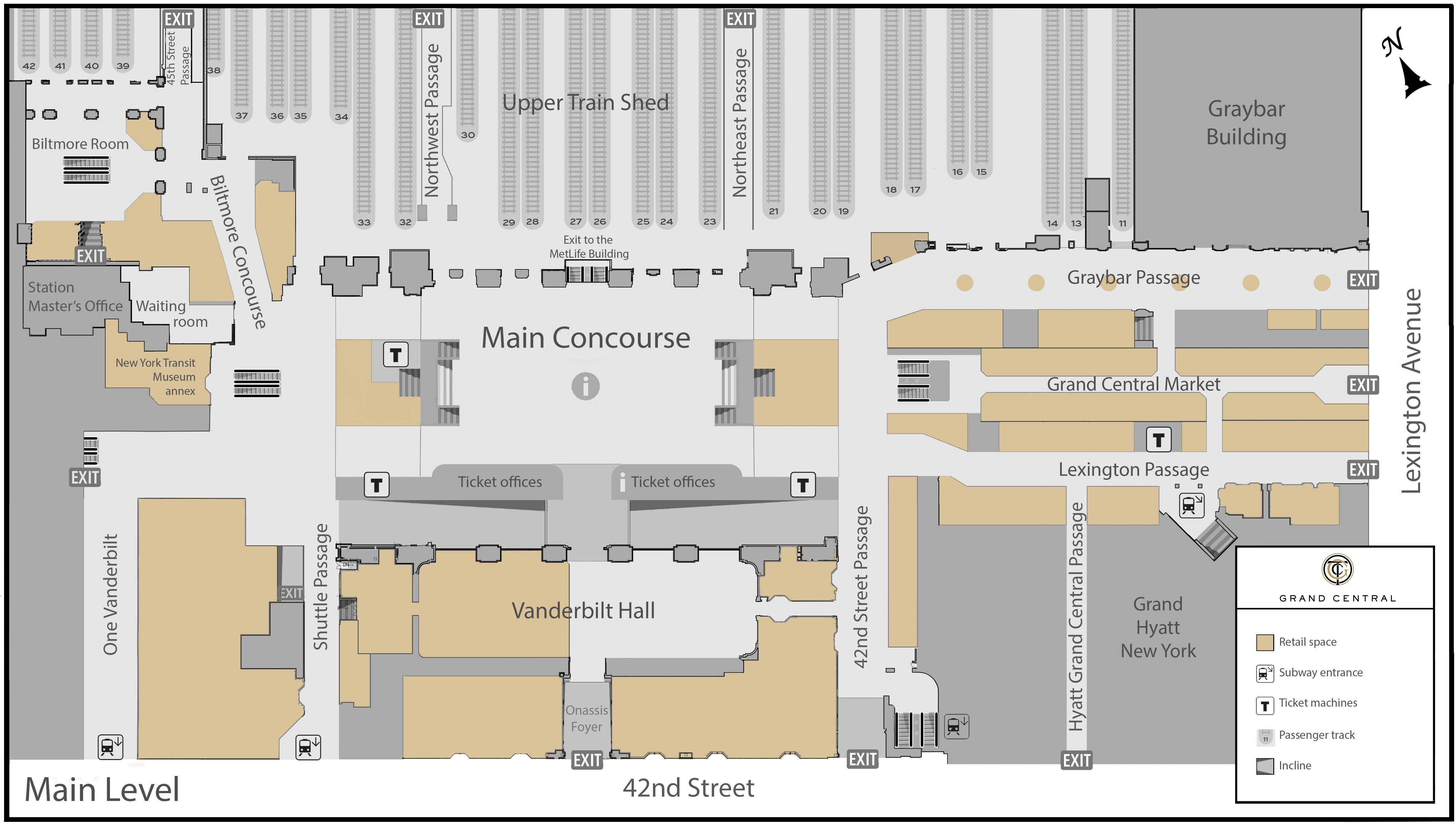 Map of Grand Central Terminal in 2019, using data from Google Maps and the Grand Central Directory. Please contact me for a PSD file if you'd like to edit this!